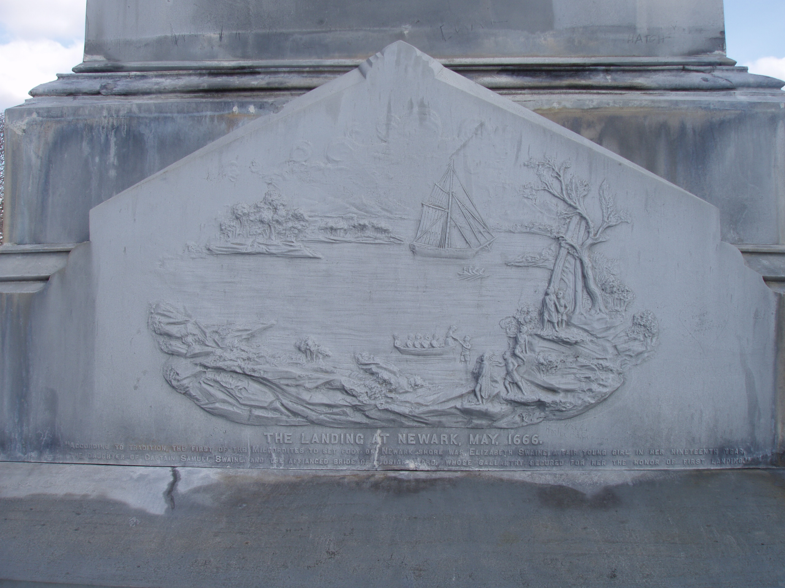 Puritan landing in May 1666, at Newark, New Jersey, United States.